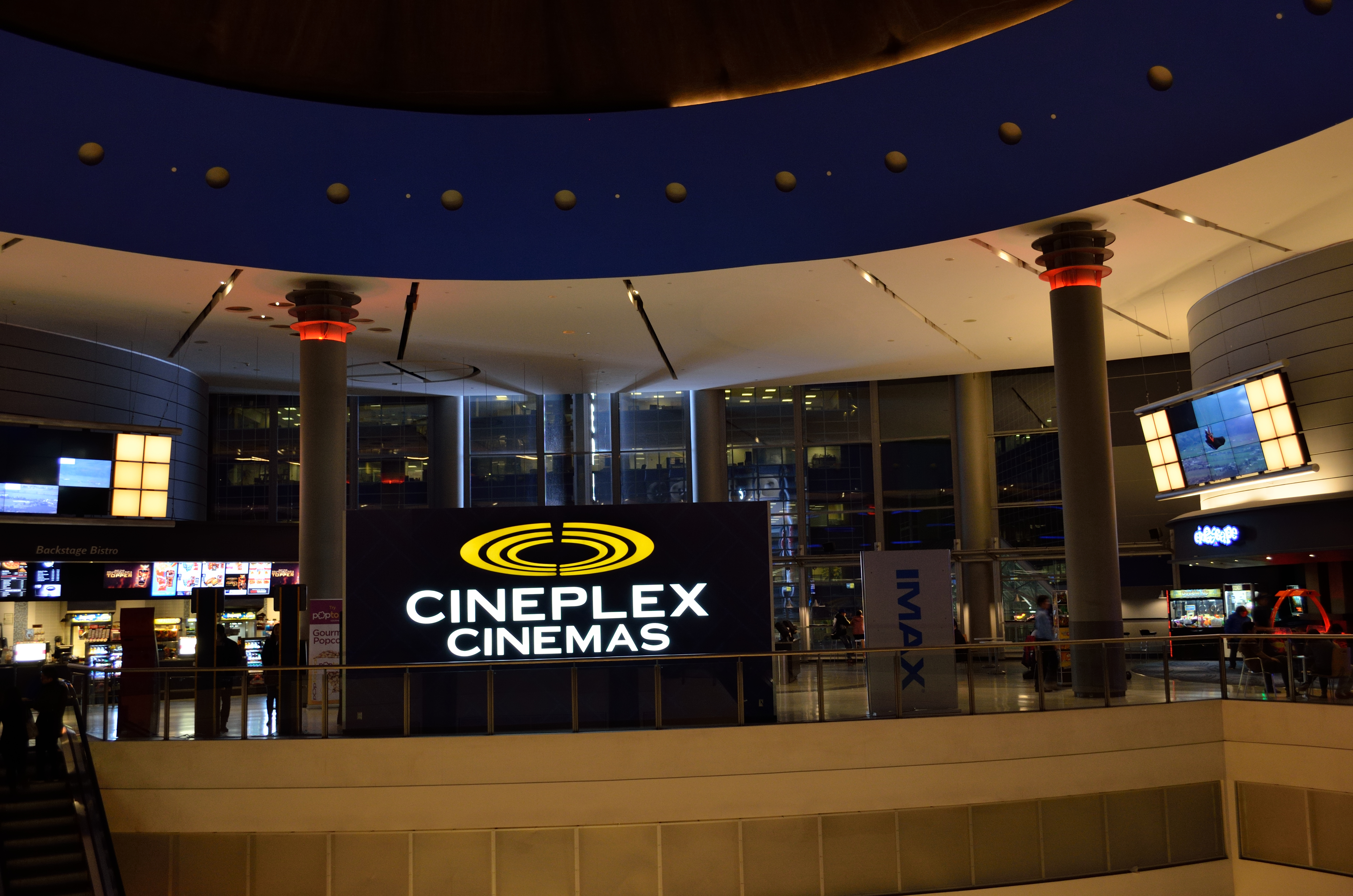 Cineplex Cinemas Empress Walk